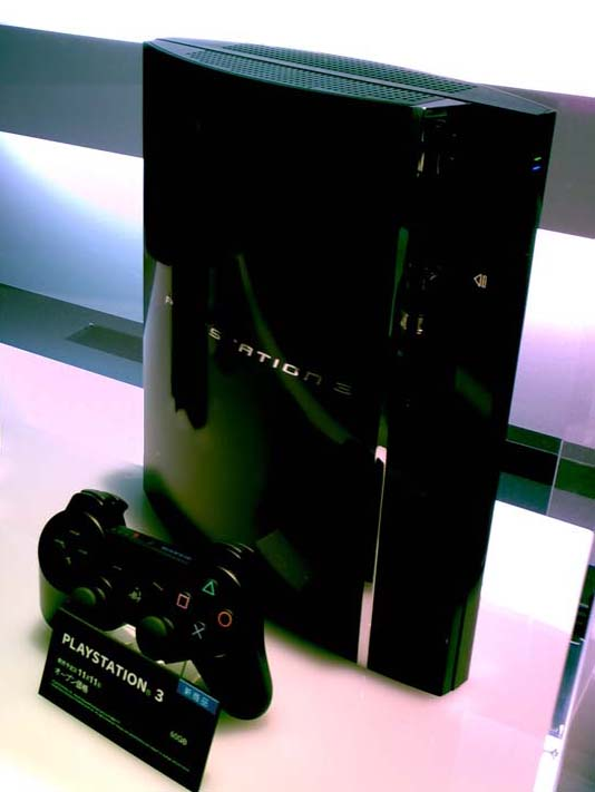 PlayStation 3 at CEATEC 2006